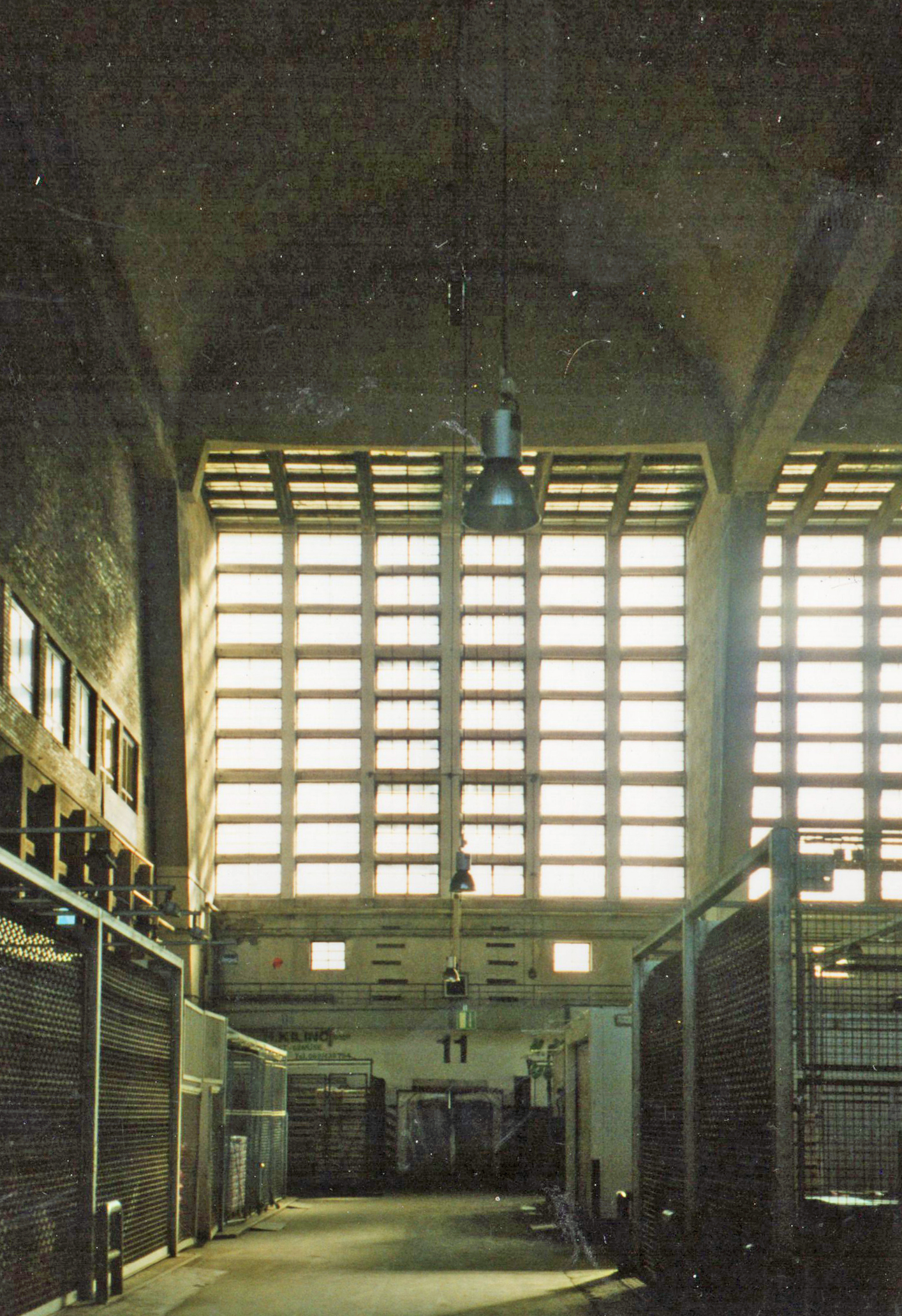 Wholesale market in Frankfurt, during operation 2002